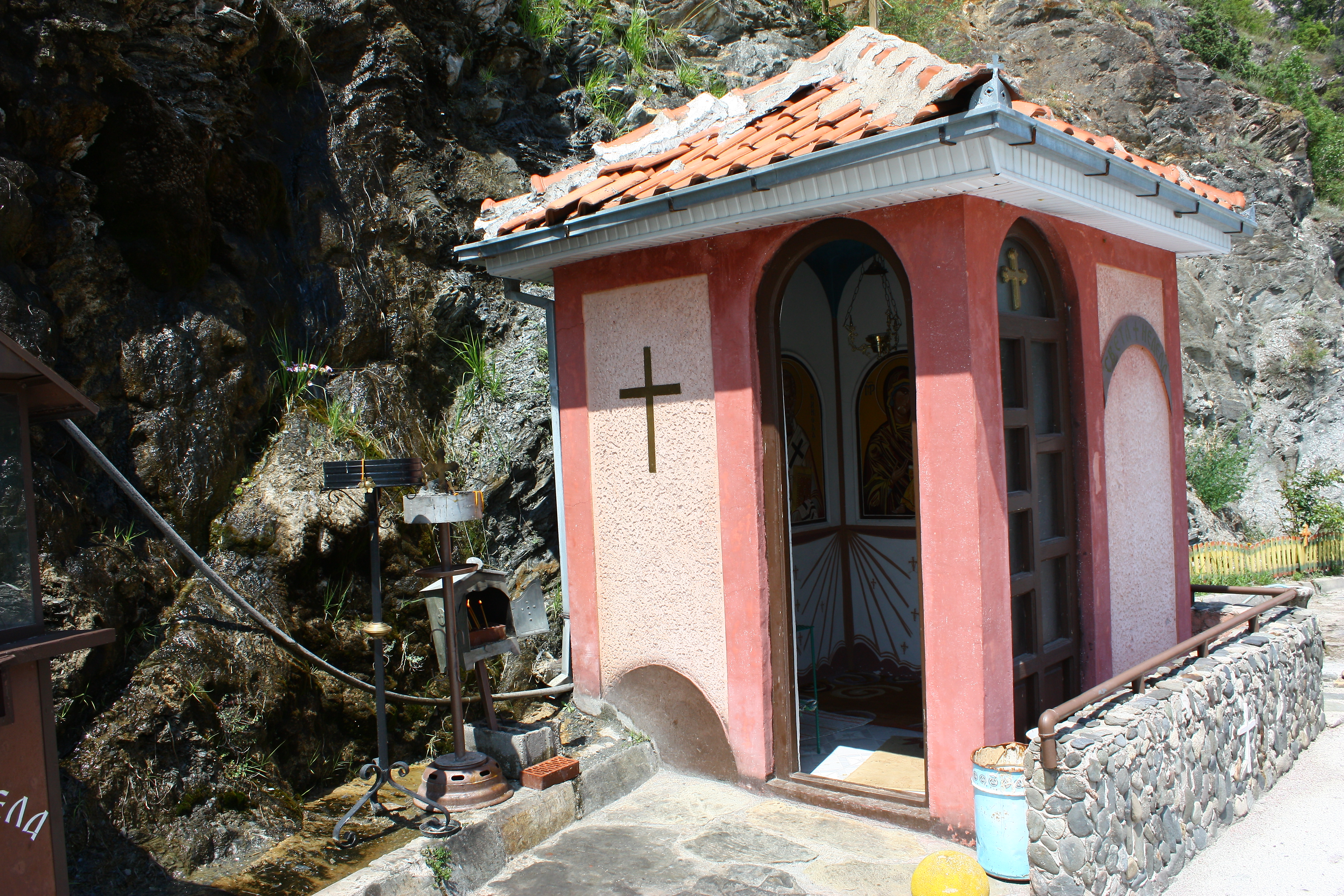 St. Nedela Church in Kaluǵerec, Macedonia